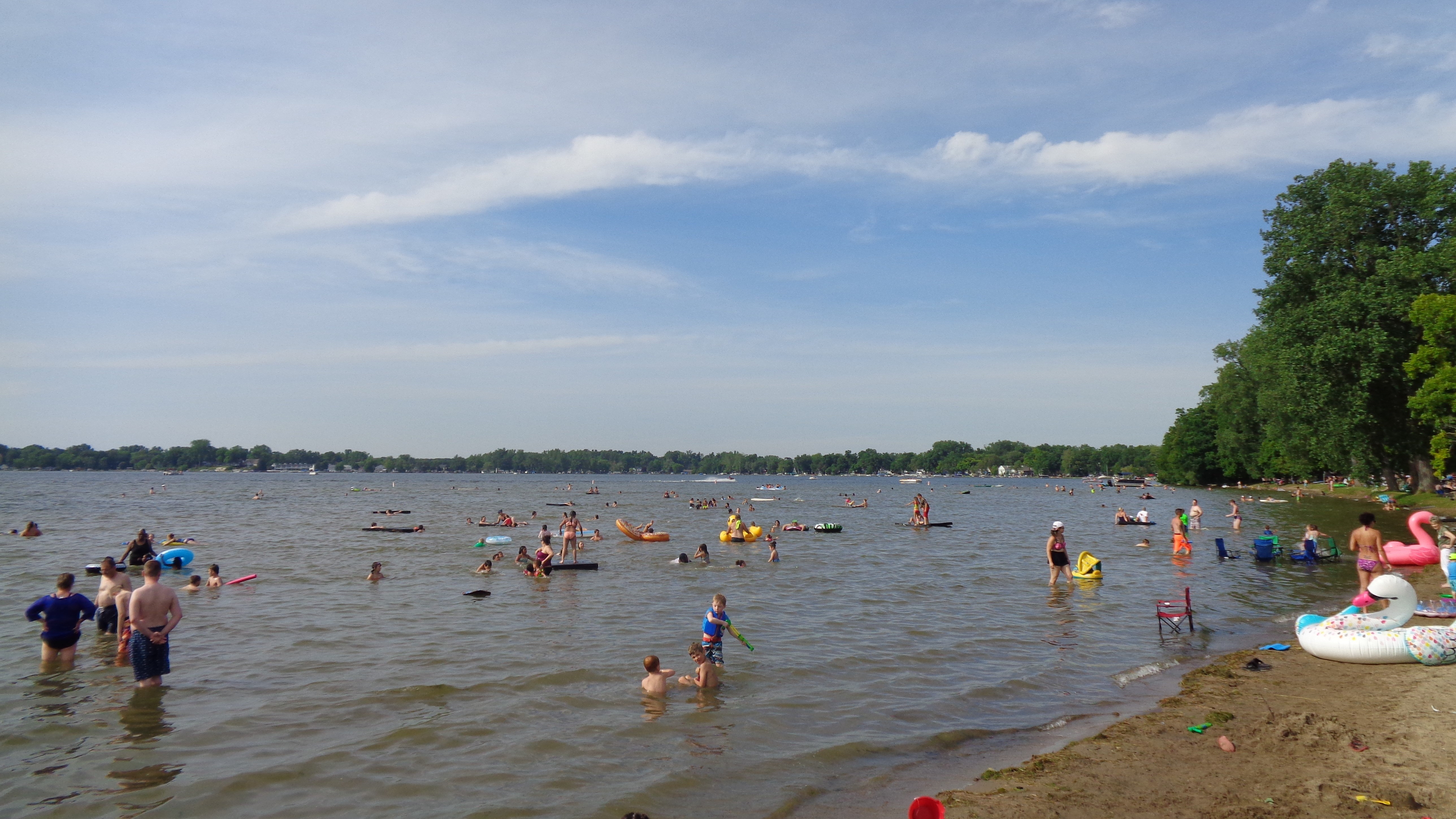 Depicted place: Hayes State Park